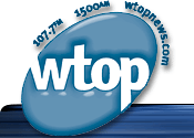 Logo of WTOP-FM (2000)